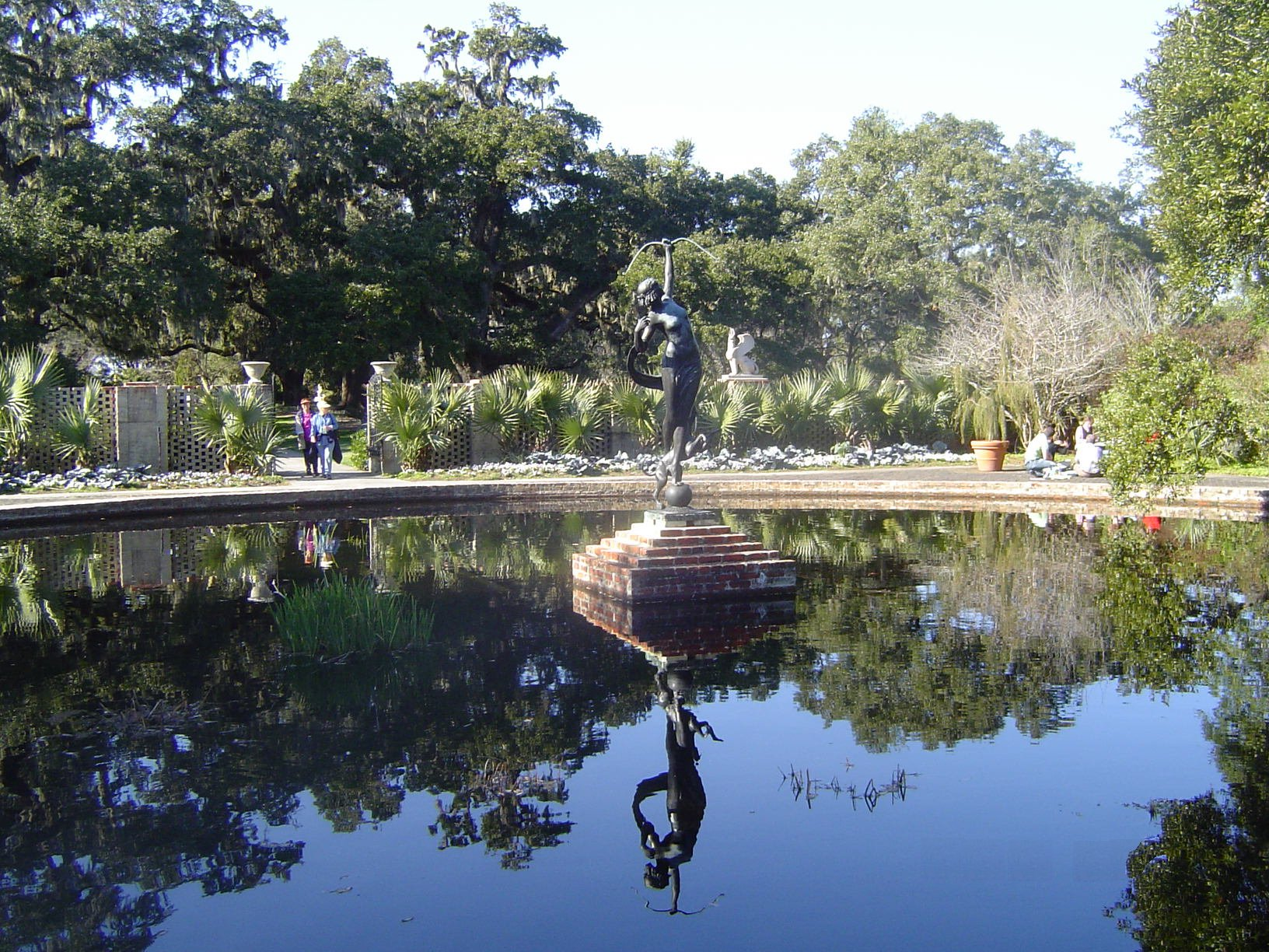 Diana of the Chase statue - Brookgreen Gardens - sculpture garden